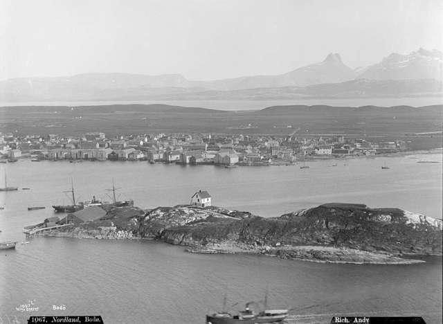 Bodø in 1880-1890, picture taken from Lille Hjartøya with Nyholmen in the forground